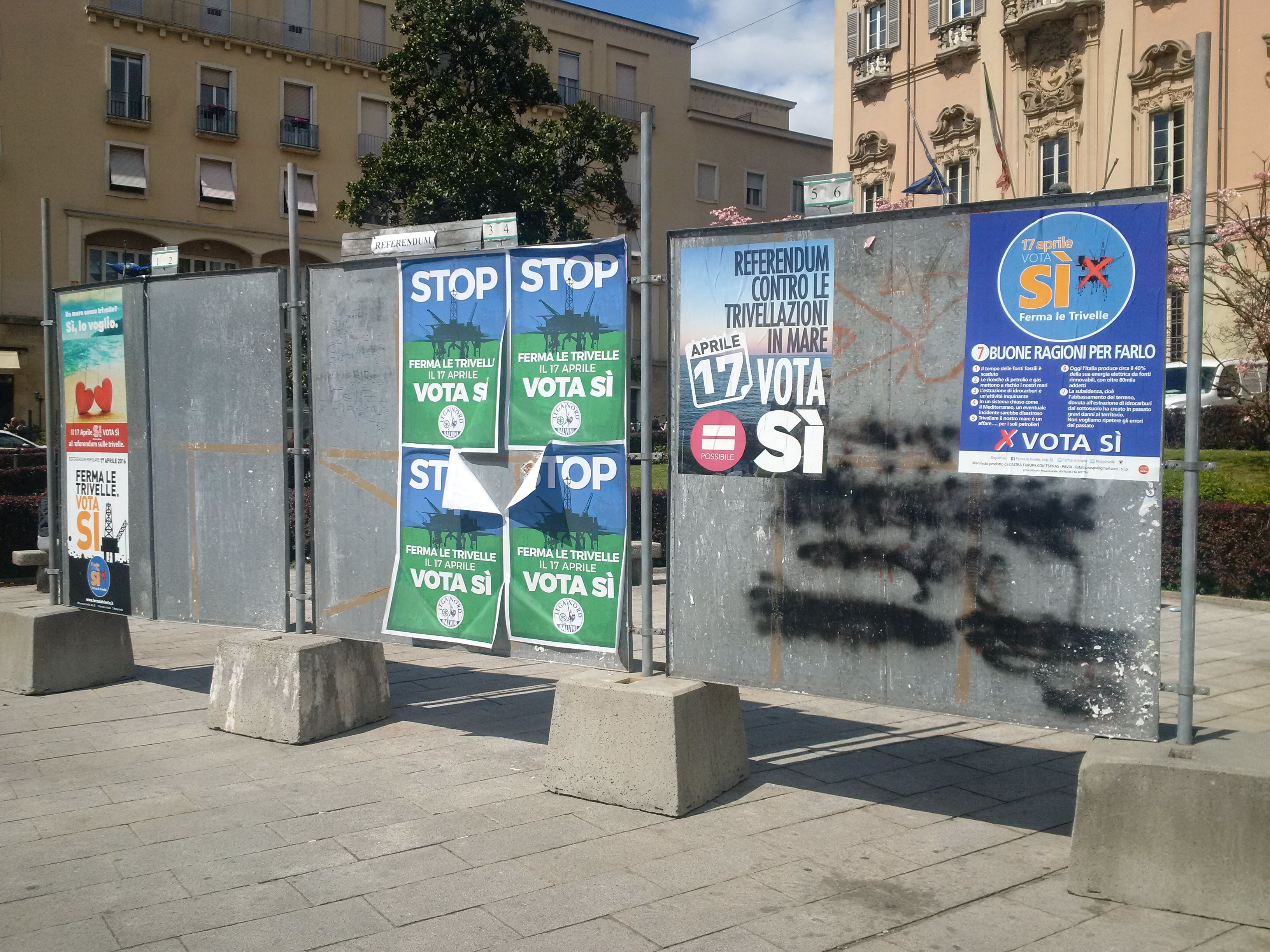 Manifesti accanto al Municipio di Pavia (sullo sfondo) per il referendum di aprile 2016; sono presenti Sinistra Italiana, Ferma le Trivelle, Lega Nord e Possibile.